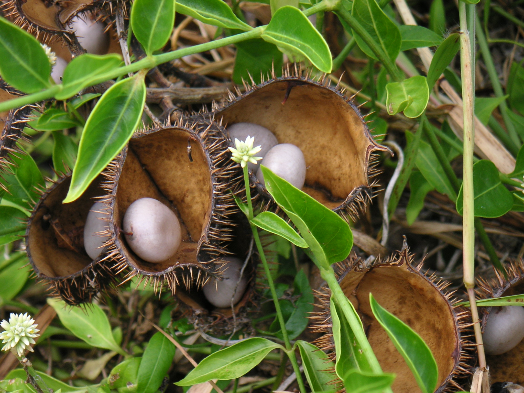 Alternanthera flavescens (leafy shoots and inflorescences), Caesalpinia bonduc (fruits)